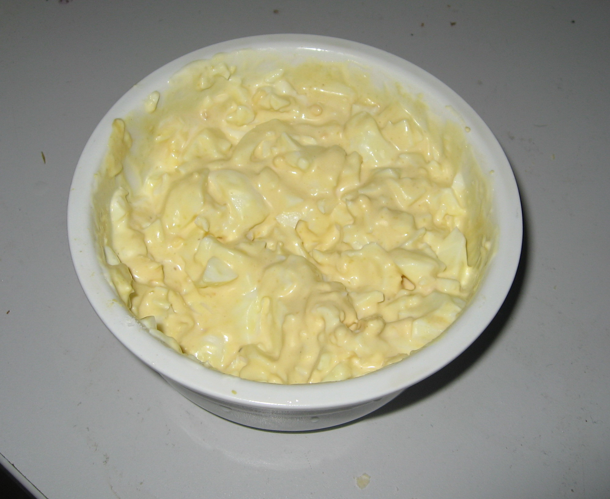 Egg spread